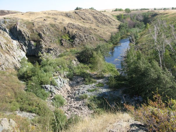 Undeveloped area in Aktobe Province of Kazakhstan.